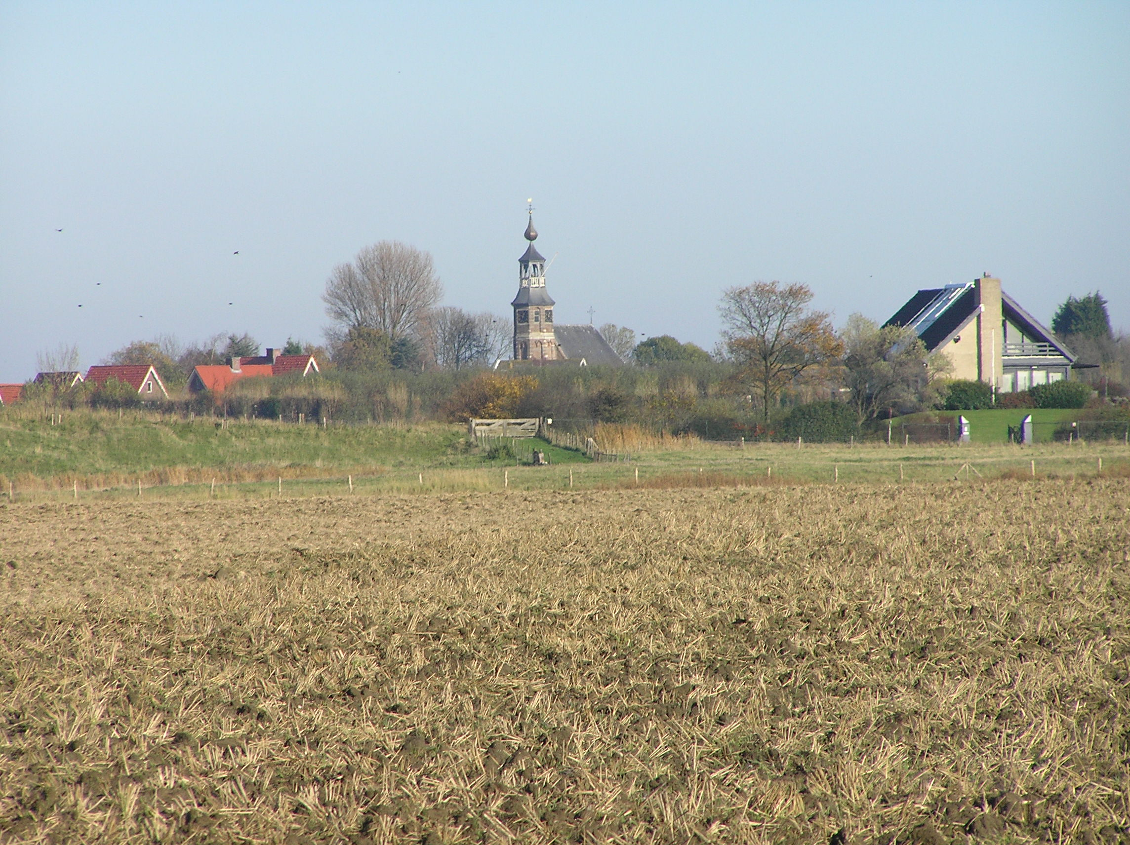 View on Kattendijke from the south